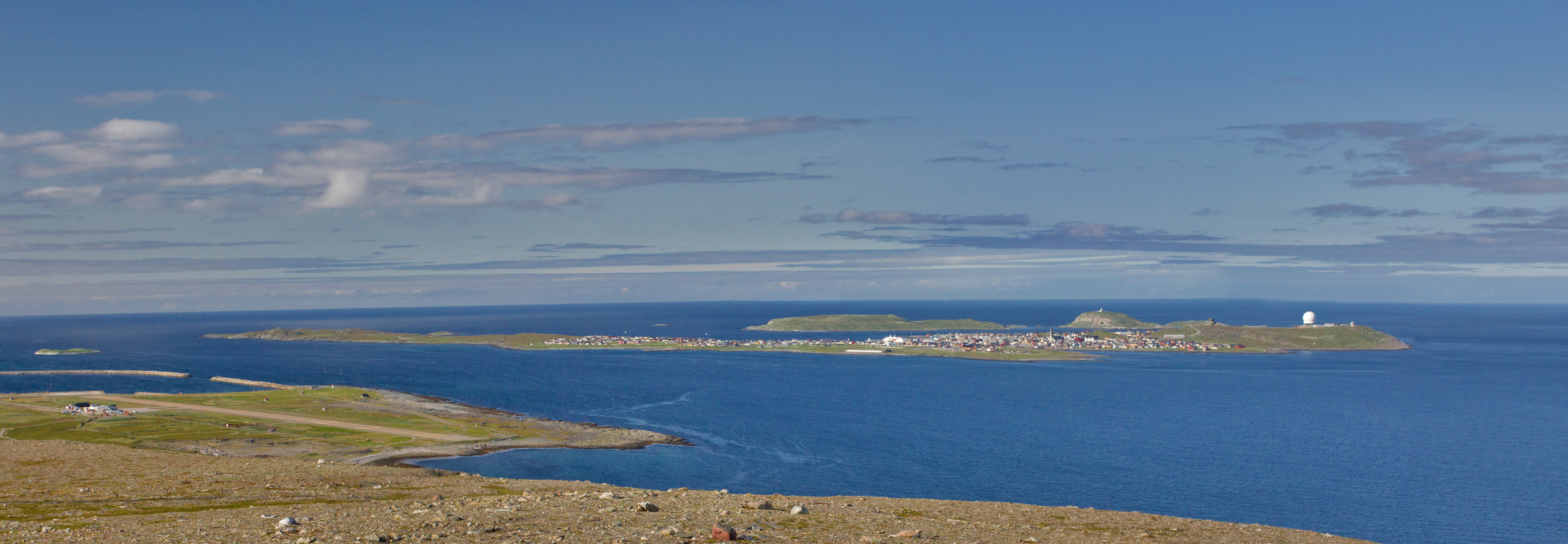 Vardø